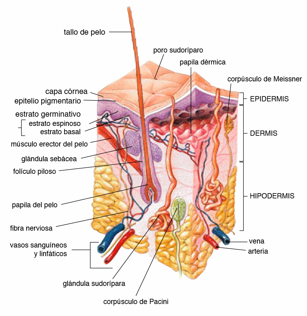 Anatomy of the human skin